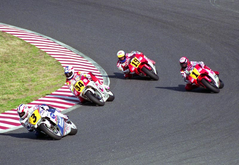 Japanese motorcycle Grand Prix 1991, 500cc class Final. Mick Doohan (3), Kevin Schwantz (34), Wayne Rainey (1), John Kosinski (19)